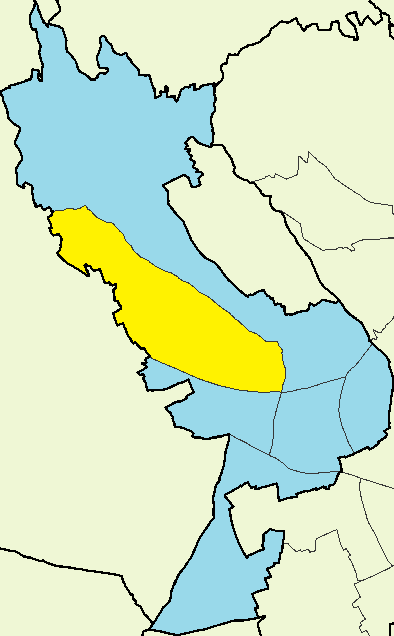 Saint Nicholas in Kato Polemidia.